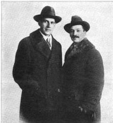 Organists Pietro Yon and Charles M. Courboin